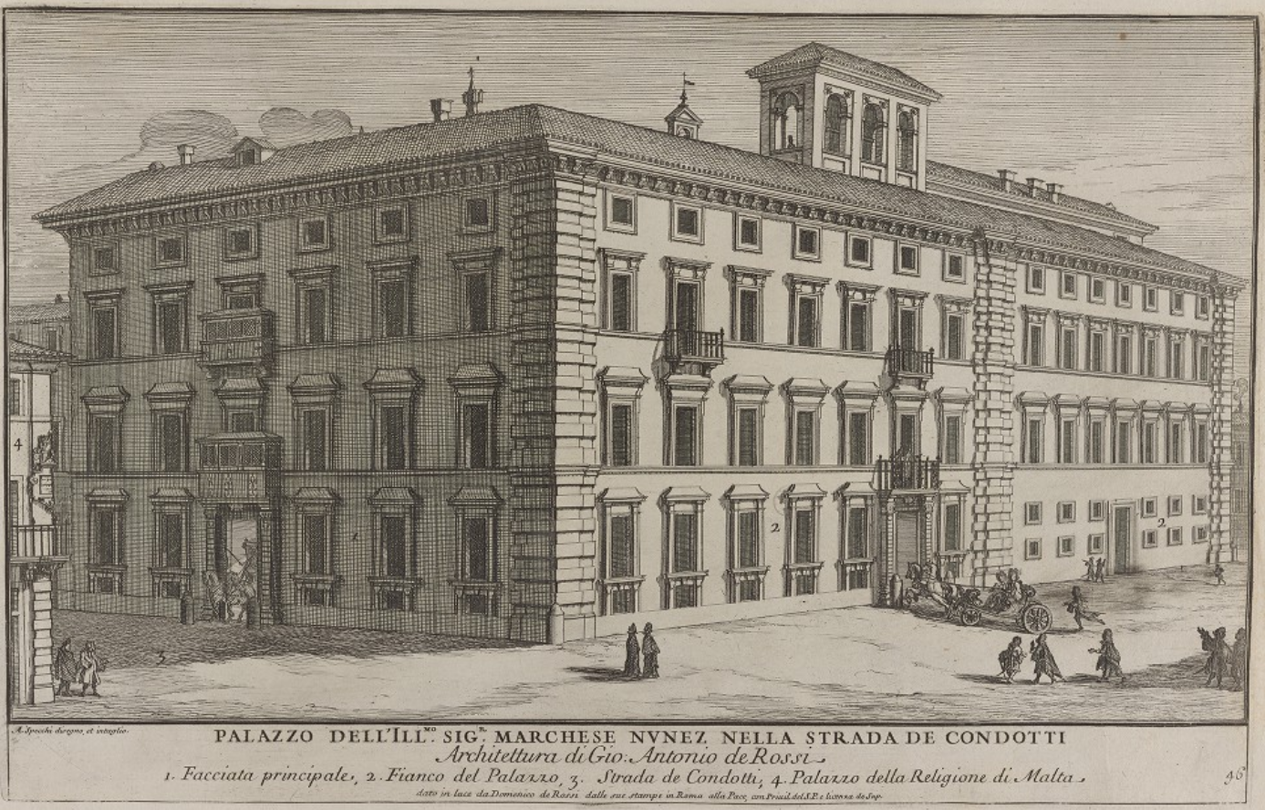 View of the Palazzo Núñez (now the Palazzo Núñez-Torlonia) on the Strada de Condotti, Rome, Italy. Includes views of the building's facade (1 and 2 in image), the Strada de Condotti (3 in image), and the Palazaa Malta (4 in image).